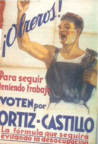 Poster elections 1938. Concordancia.